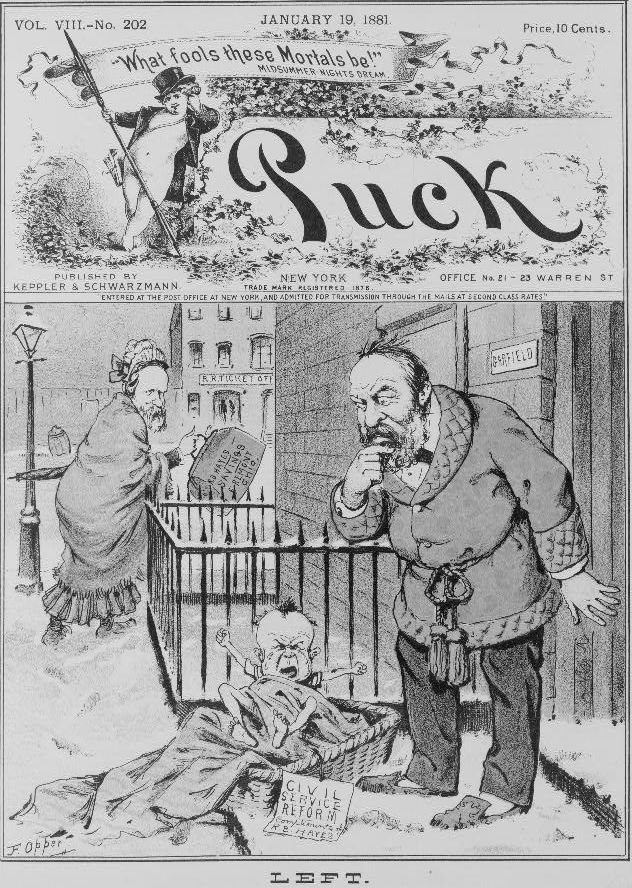 Cartoon showing James Garfield looking at baby in basket with tag, "civil service reform, compliments of R.B. Hayes". Rutherford B. Hayes, dressed as a woman, leaves with bag labeled "R.B. Hayes - savings, Fremont, Ohio". Cover of "Puck" magazine, 19 January, 1881 Left / F. Opper.